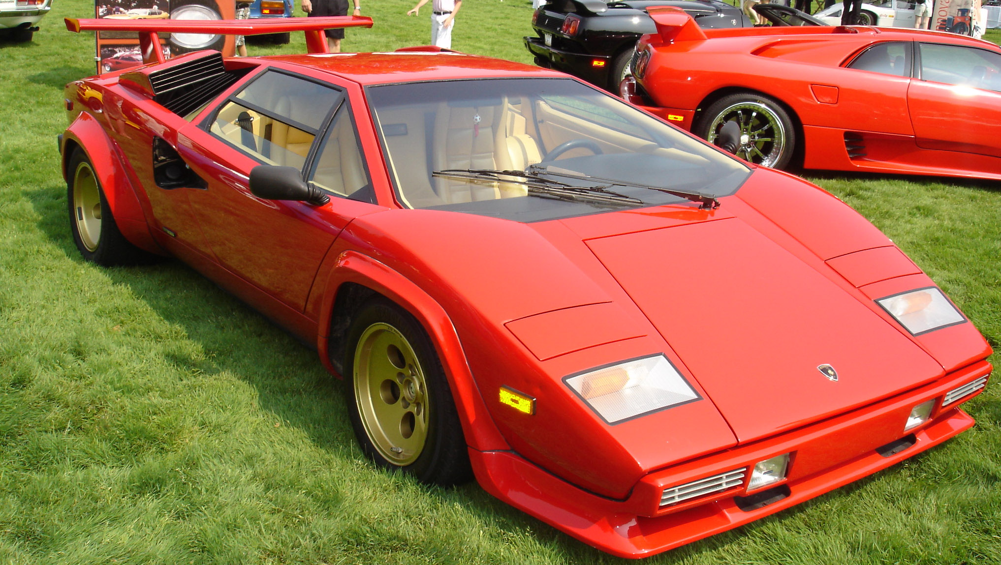 Lamborghini Countach